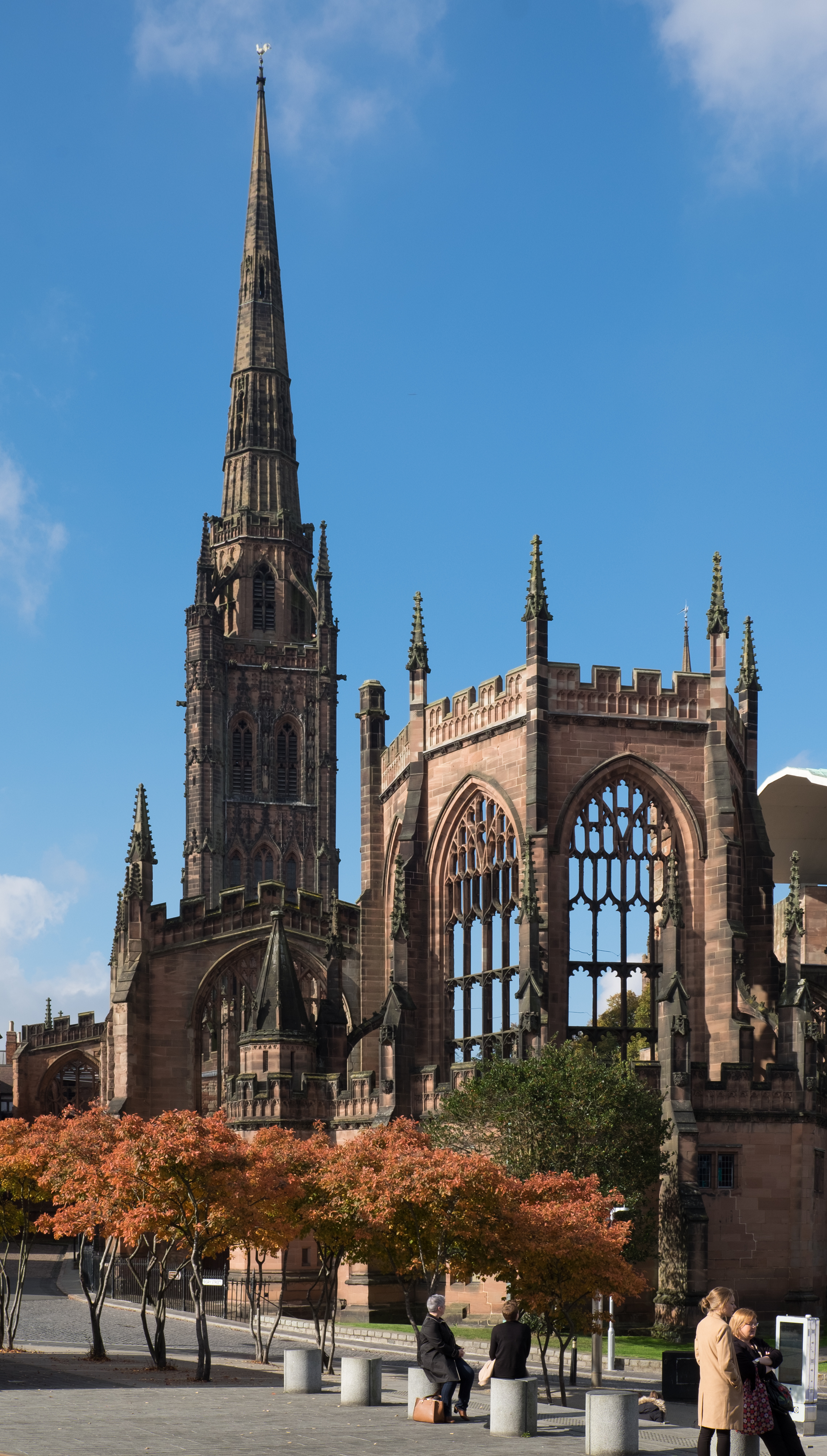 The war-ruined 14th-century St Michael's Cathedral, Coventry. The 90-metre spire survived intact.